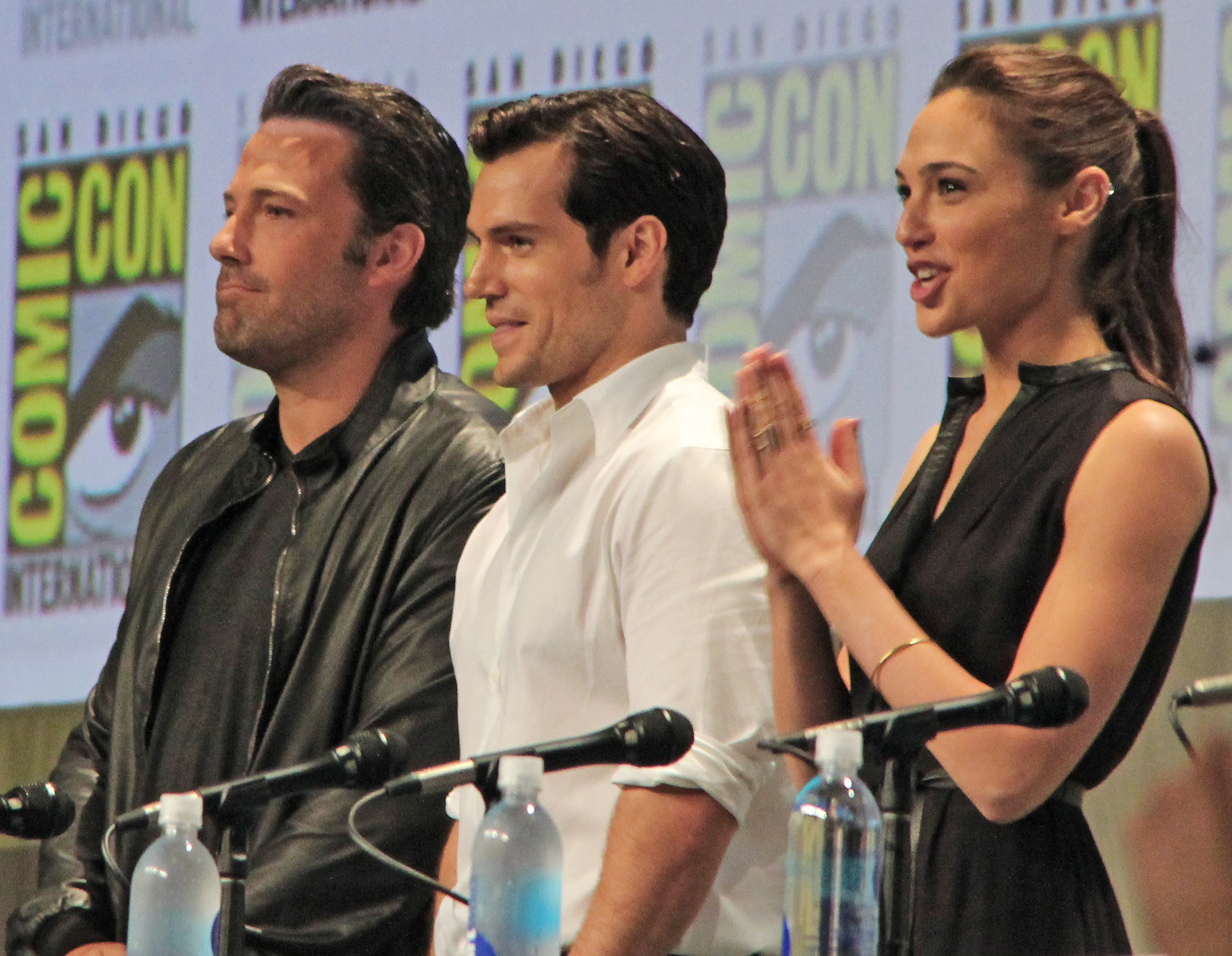 IMG_0663 2014 Comic-Con International